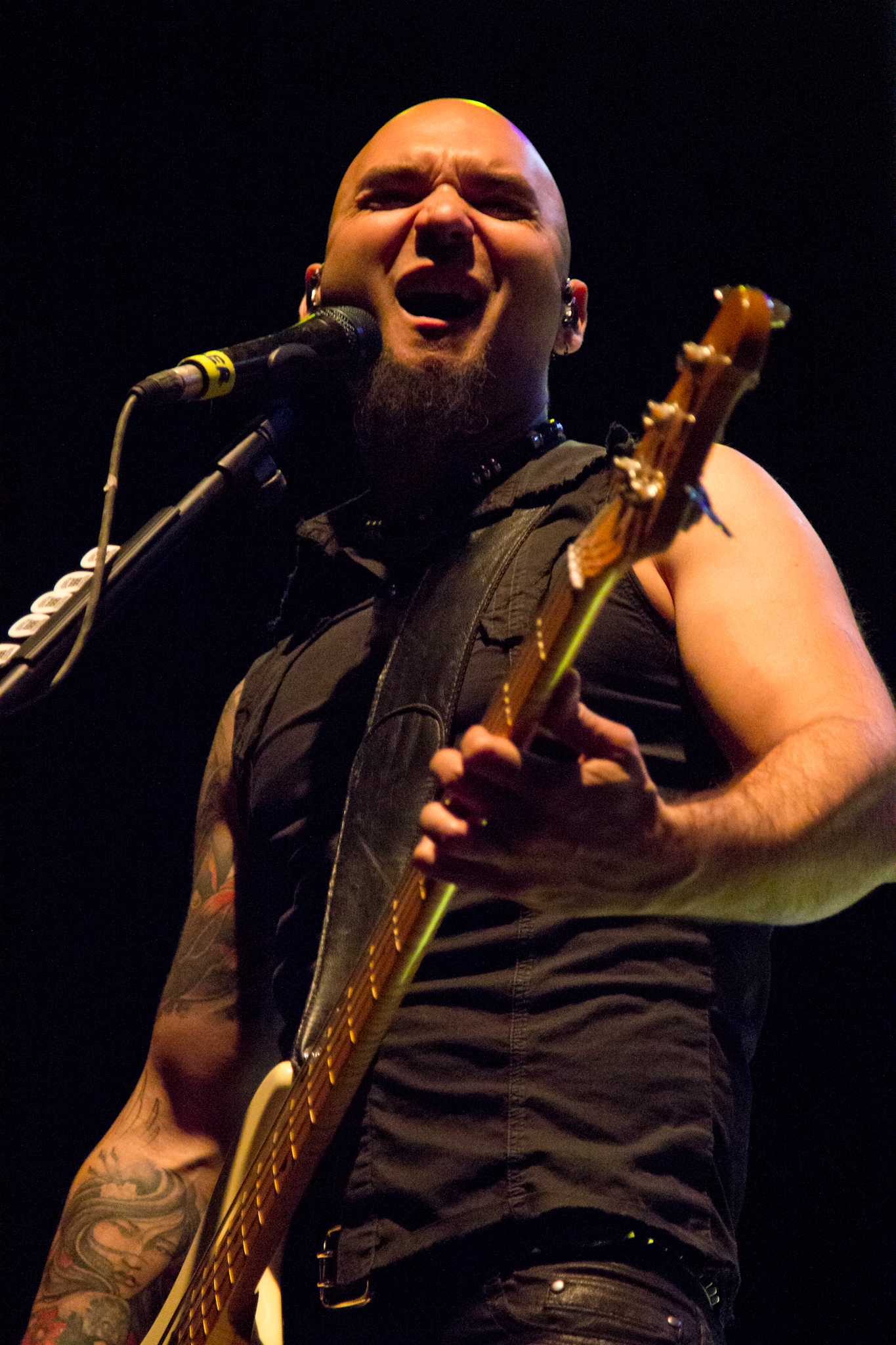 Spanish metal band Sôber at Asaco Metal Fest 2013, Parla, Spain.